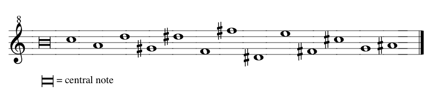 The fourteen-tone series on which the melody "Libra" from Karlheinz Stockhausen's Tierkreis is based. (From p. 151 of Jerome Kohl, "The Evolution of Macro- and Micro-Time Relations in Stockhausen's Recent Music", Perspectives of New Music 22, nos. 1 & 2 (Fall-Winter 1983/Spring-Summer 1984): 147–85.)